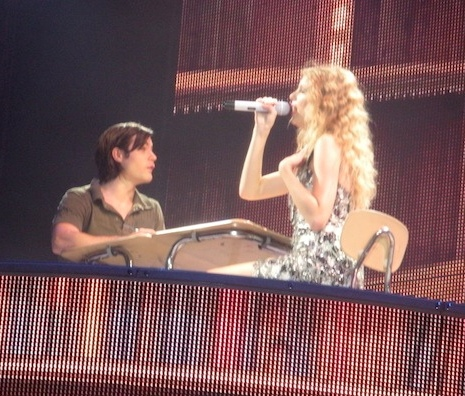 Country singer Taylor Swift performing during her concert in Foxboro, Massachusetts as part of her Fearless Tour in 2010.